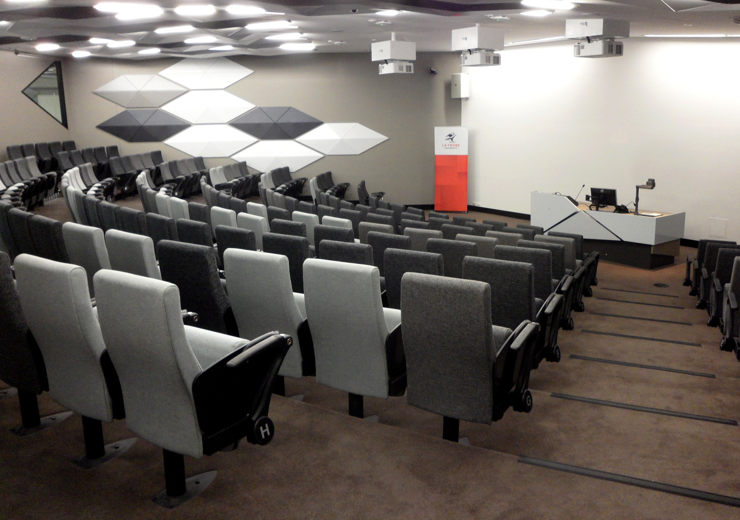 200-seat Hoogenraad Auditorim at LIMS